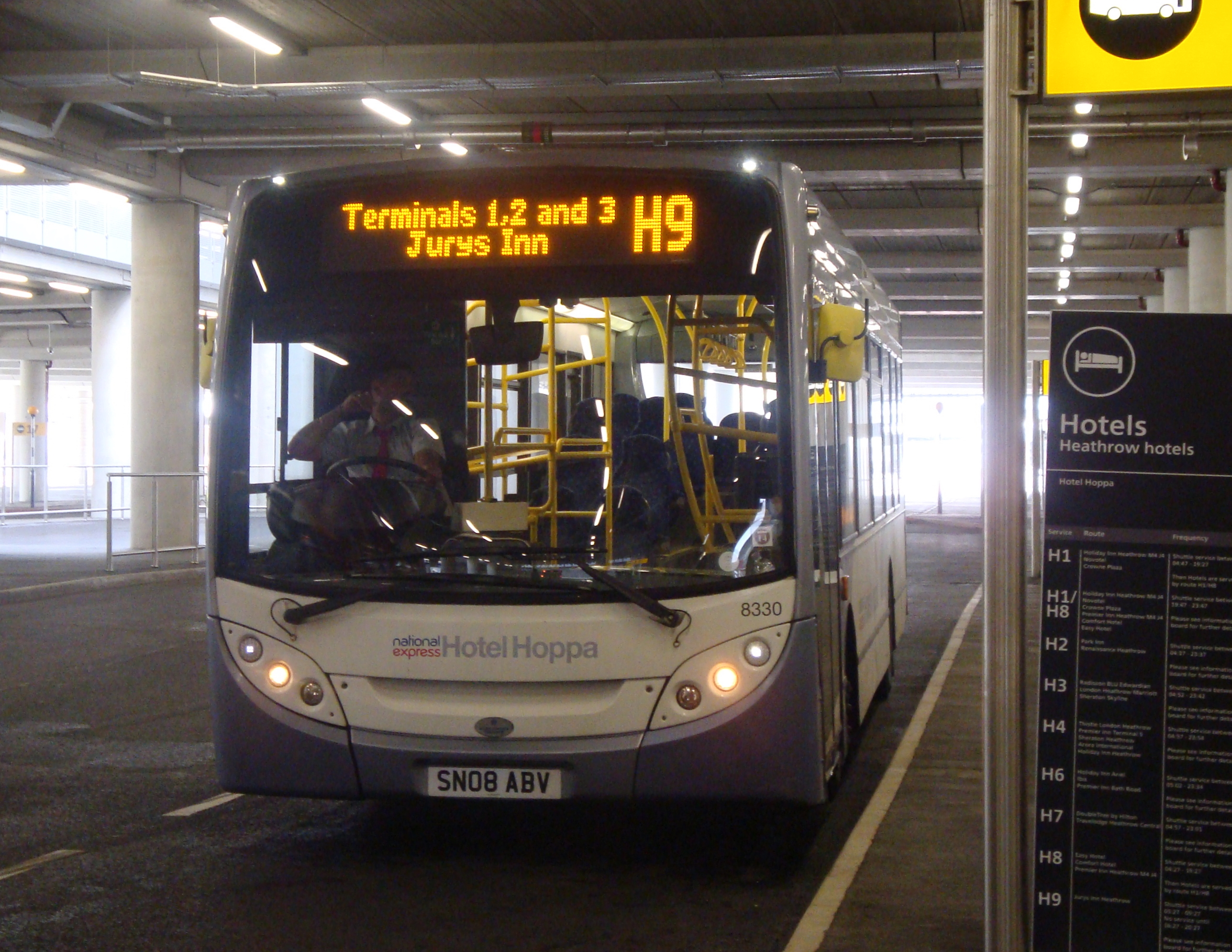 National Express Hotel Hoppa 8330 on Route H9, Heathrow Terminal 2